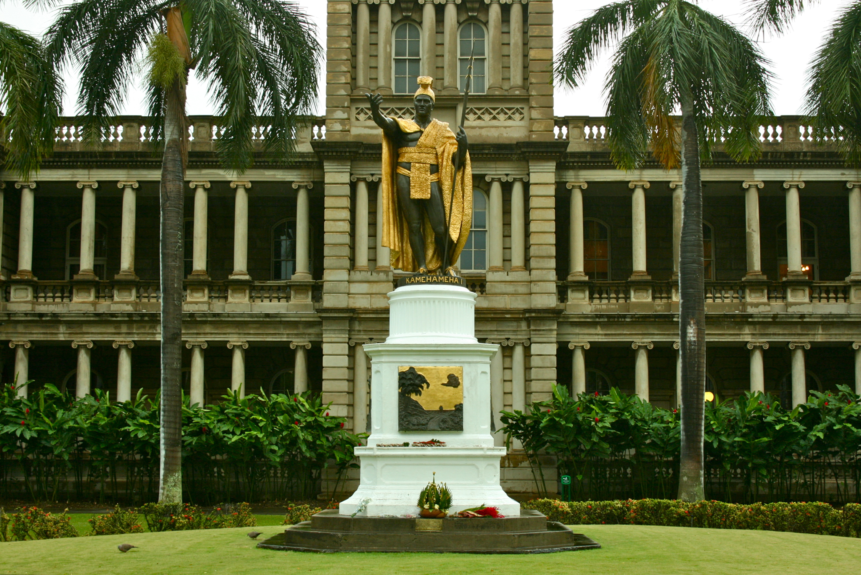 King Kamehameha I statue and Aliiolani Hale building, in downtown Honolulu. Hawai`i: Mo‘i Kamehameha I ki‘i, Honolulu